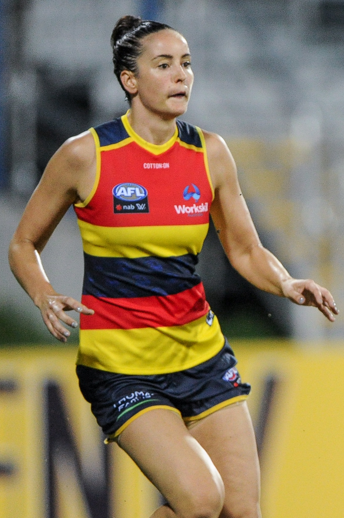 Becchara Palmer in the AFL Women's preseason match between the Adelaide Football Club and Fremantle Football Club on 20 January 2018 at TIO Stadium.